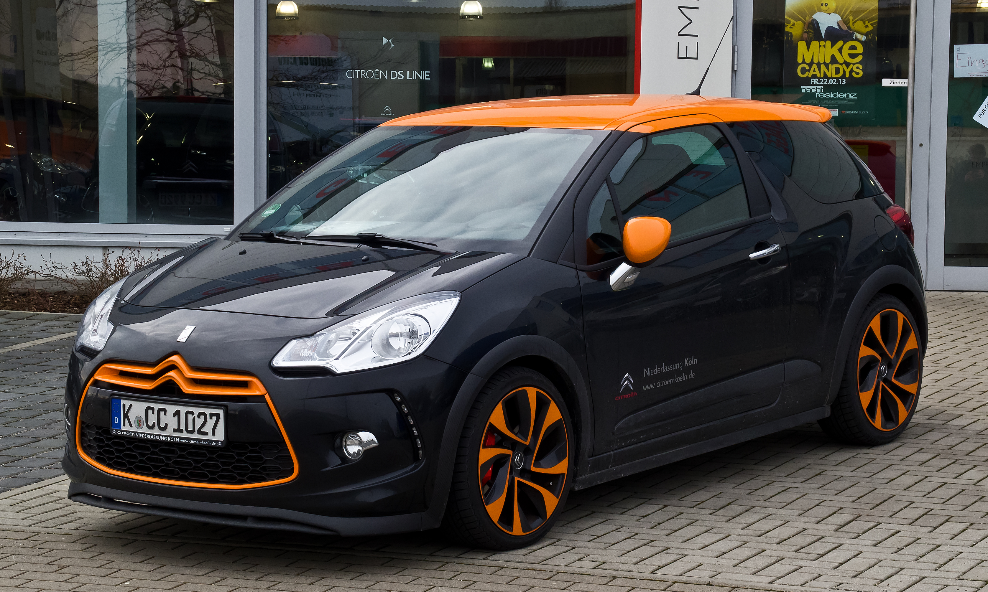 Citroën DS3 THP 200 Racing